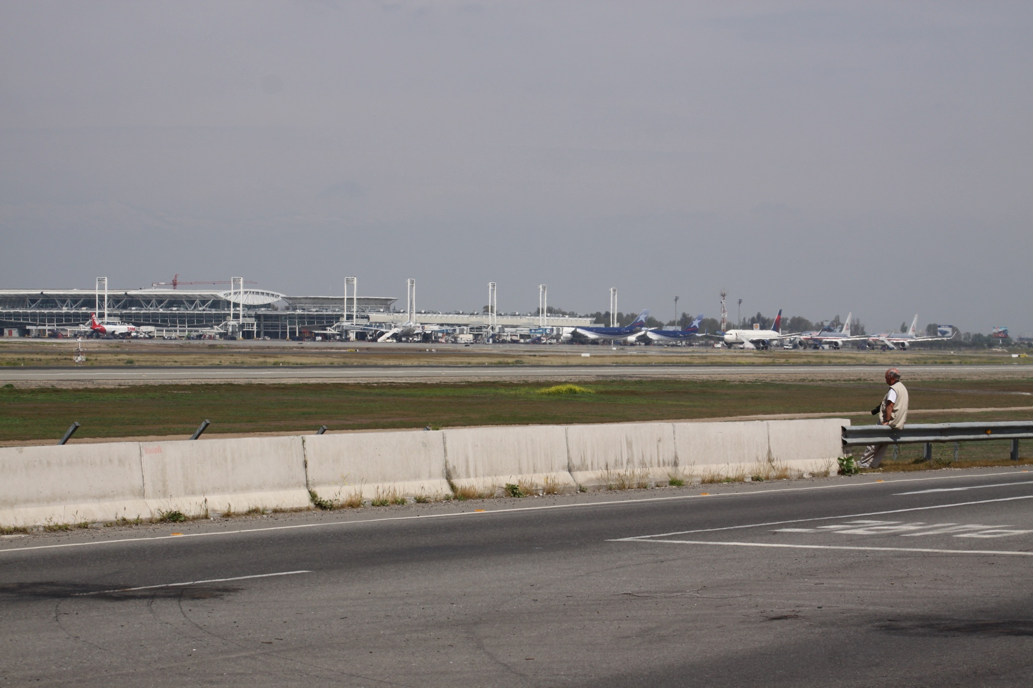 At Santiago